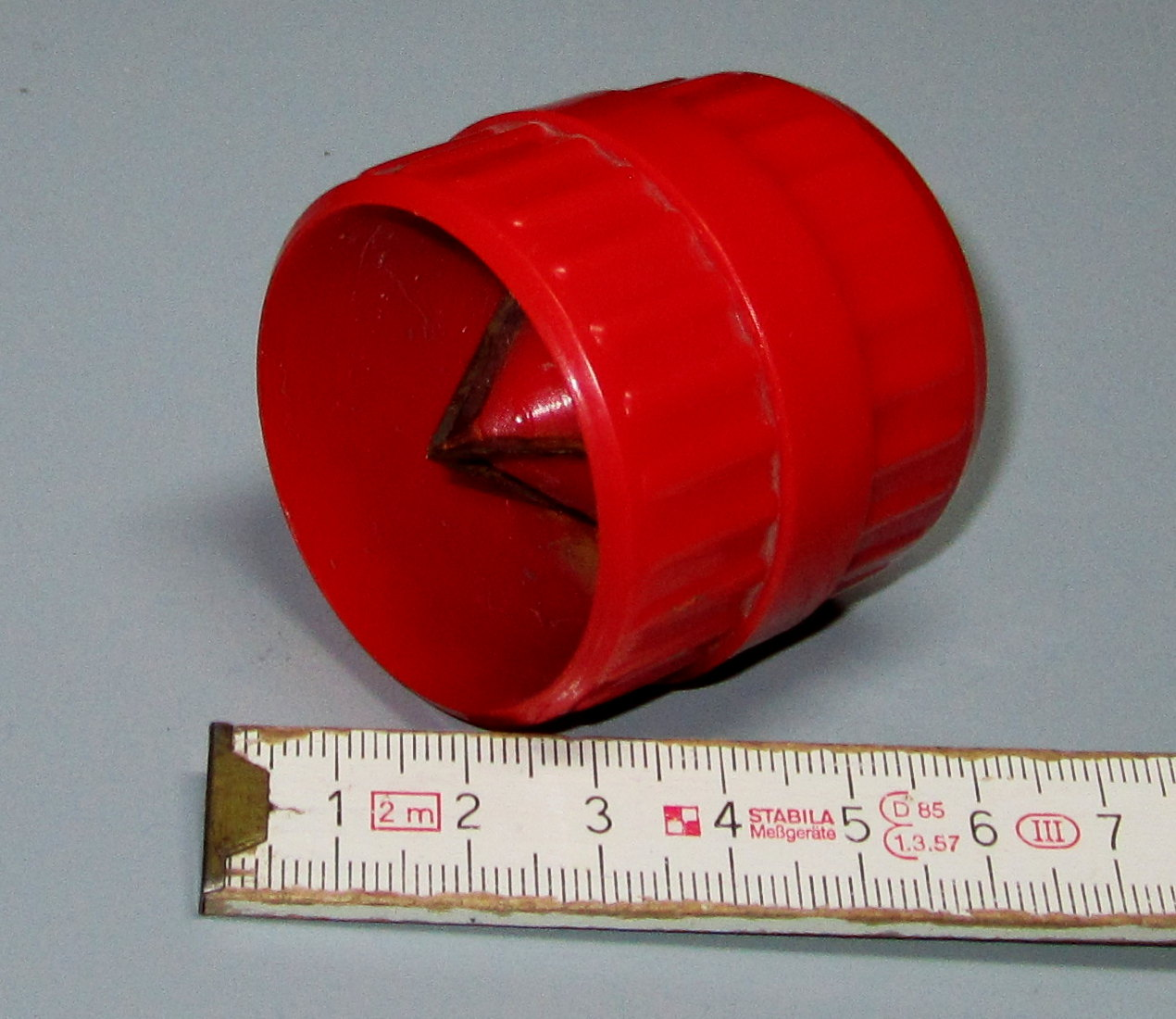 pipe deburring tool, scale in cm